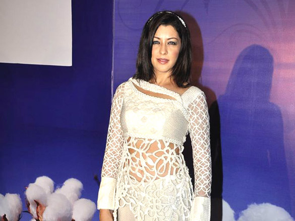 Aditi Gowitrikar walks the ramp for Tasneem Merchant